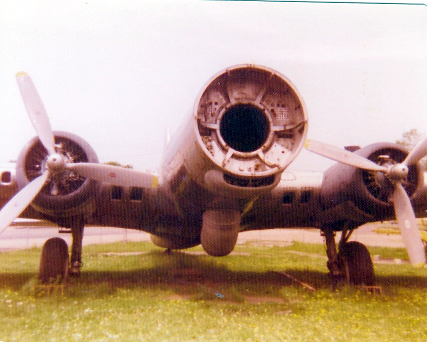 This is a photo from 1975 of the Beadley Air Museum, showing the B-17G, Model 299z, later to become the Liberty Belle aircraft which later caught fire in flight.